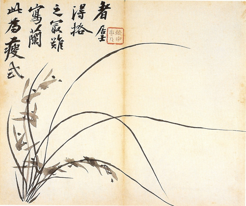 Kim Jeong-hui, 1786–1856. Ink on paper, 27.0 X 22.9cm. Gansong Art Museum. He was a prominent Korean civil minister, Silhak scholar, and calligrapher. He invented his own style of calligraphy called, "chusache", based on ancient Korean monumental inscriptions. Reference : ^ "김정희 金正喜" (in Korean). Nate / Encyclopedia of Korean Culture.